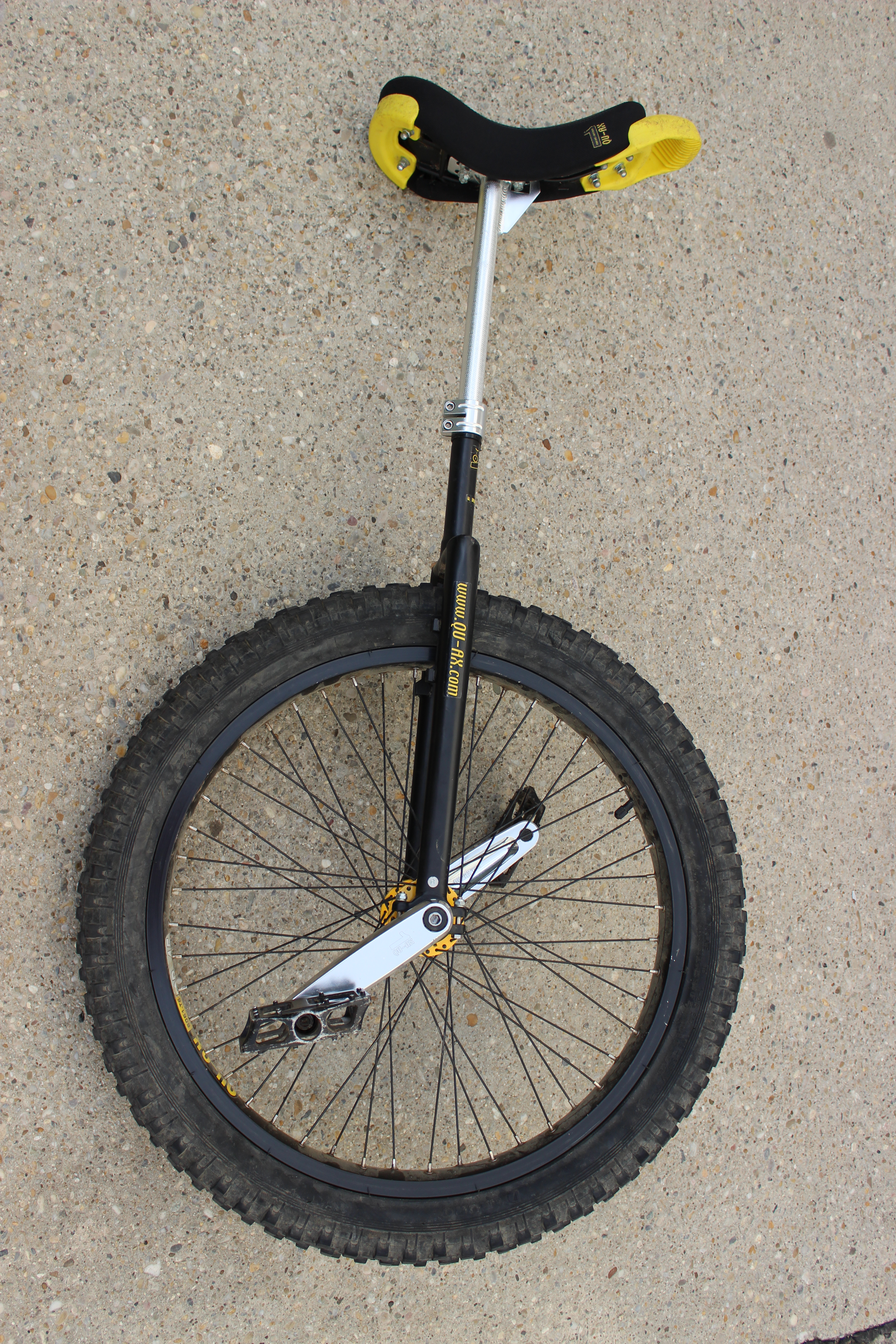 A 24" QU-AX MUni (Mountain Unicycle)